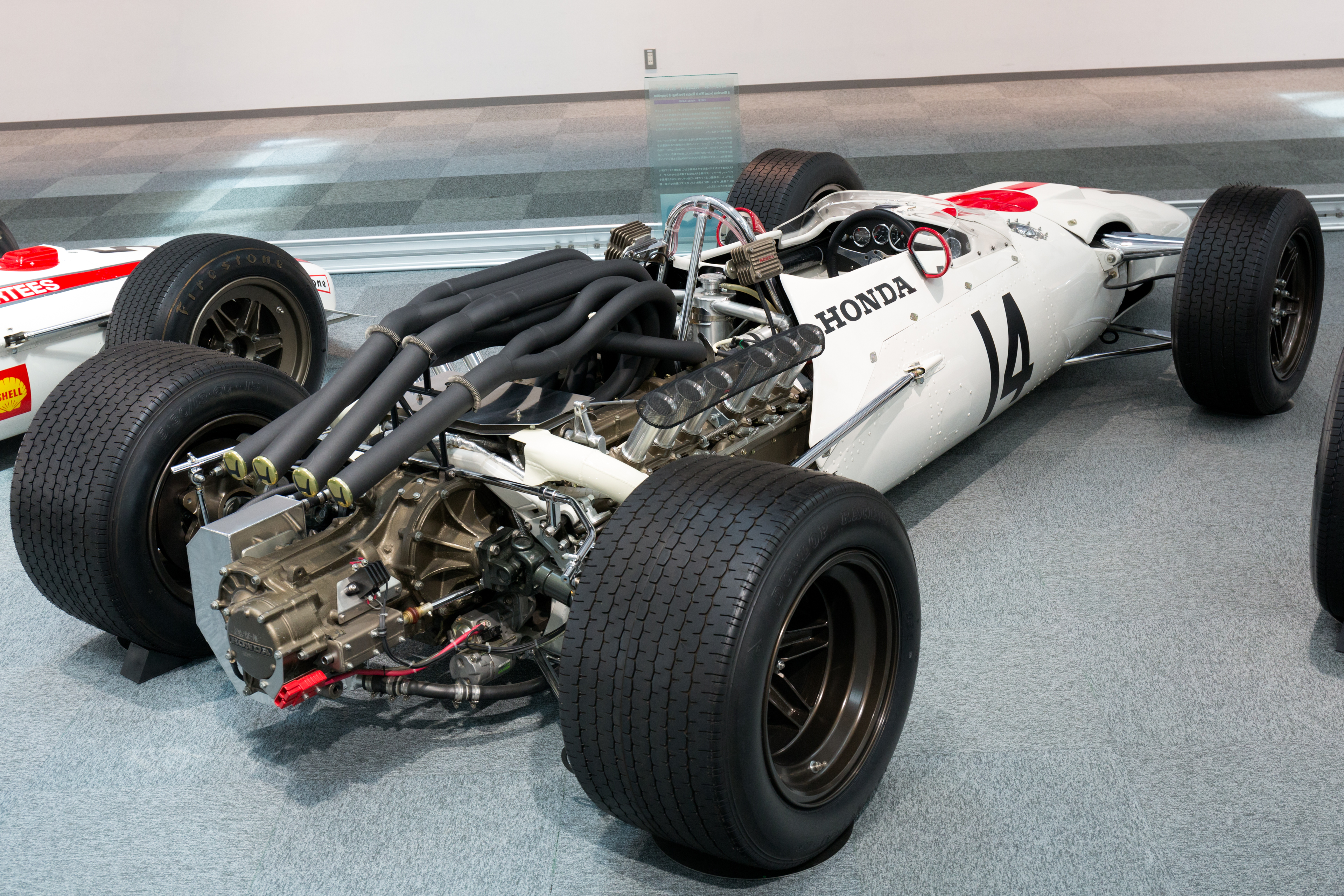 1967 Honda RA300 of John Surtees